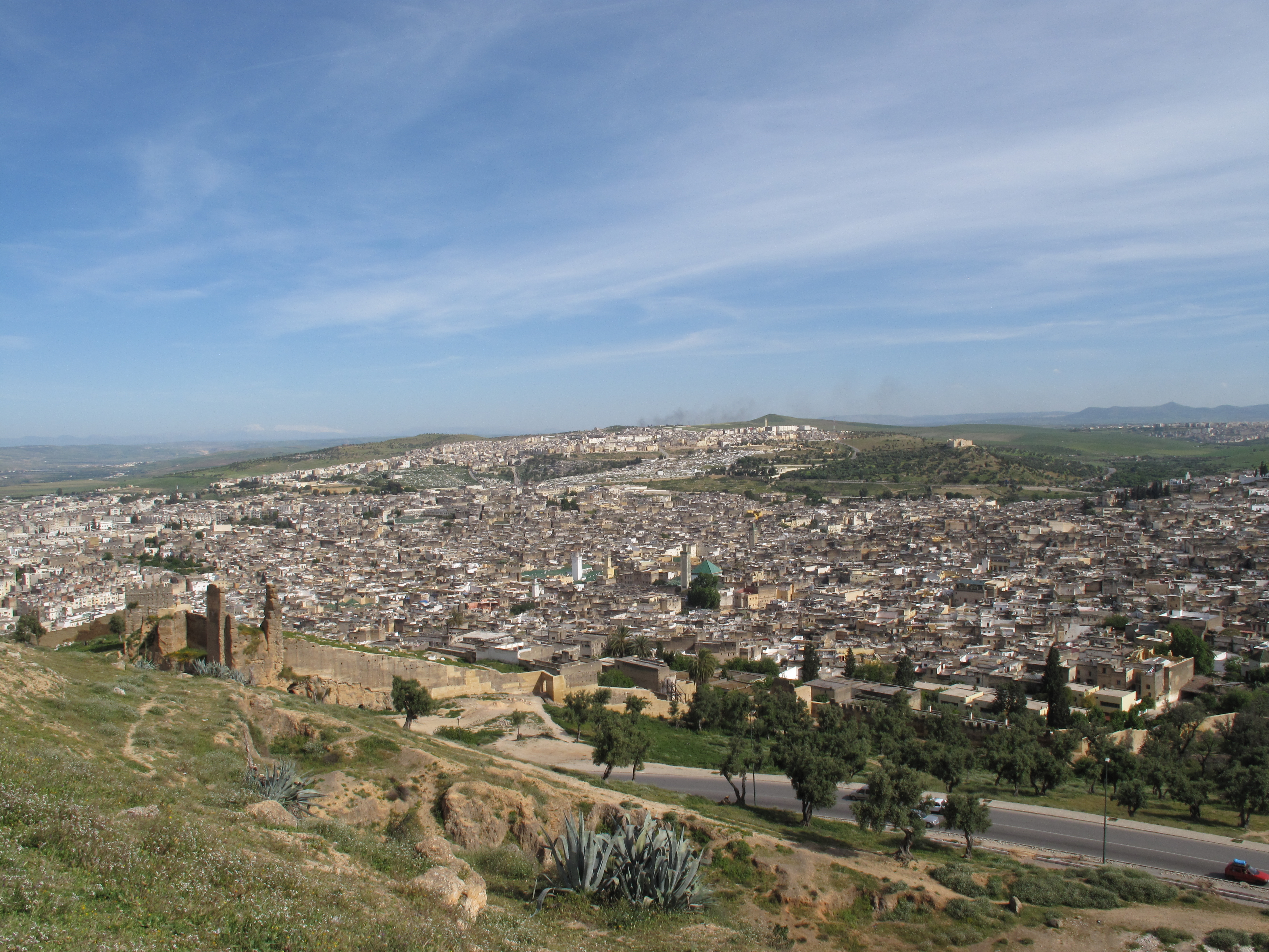 View of the old city of Fes in Morocco